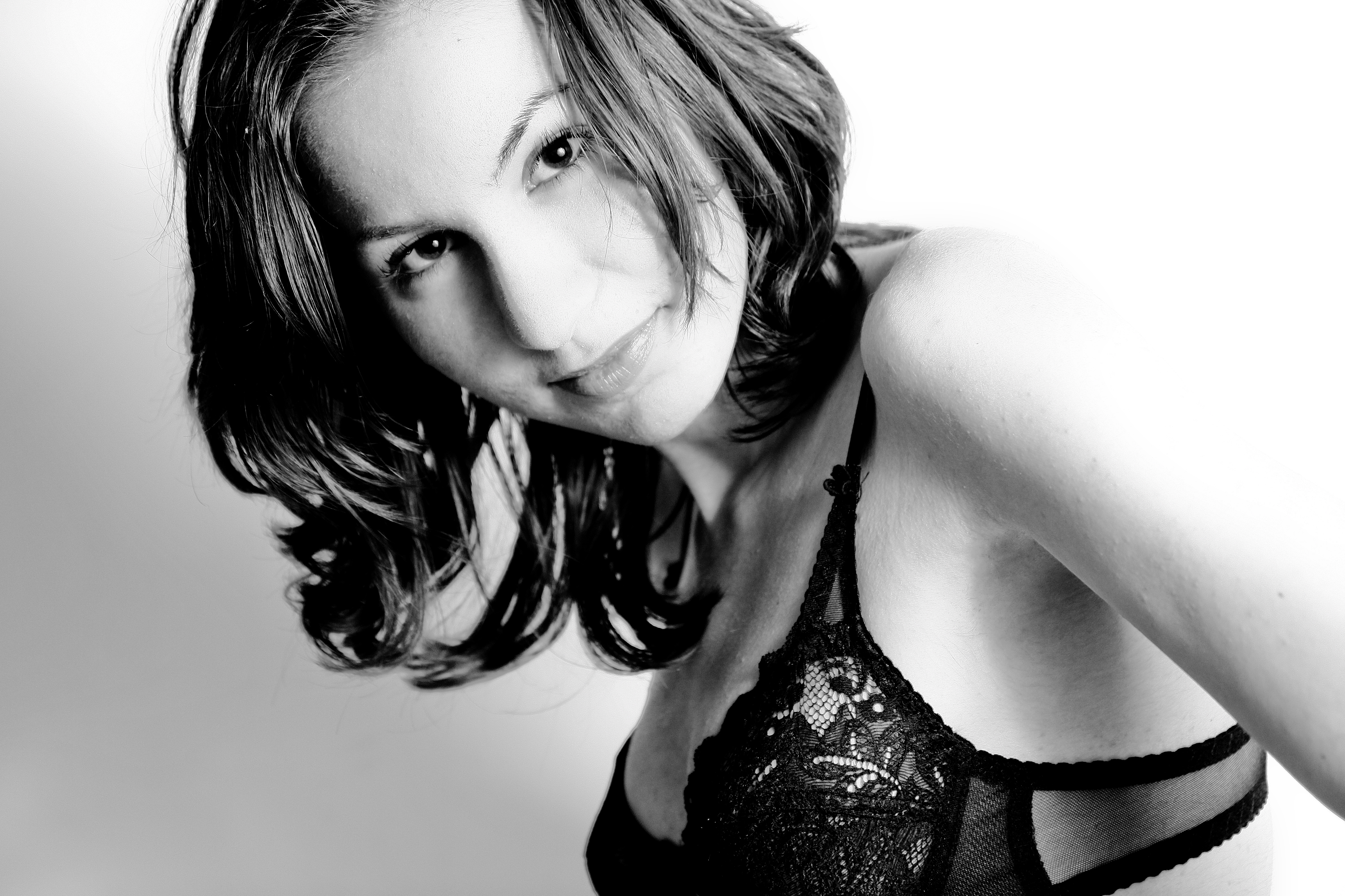 Strobist info: single 540EZ shot through umrella from camera right at 1/8 power. Triggered via SkyPort. Just started working with off-camera flash, so i guess there's a lot of space for improvement :))